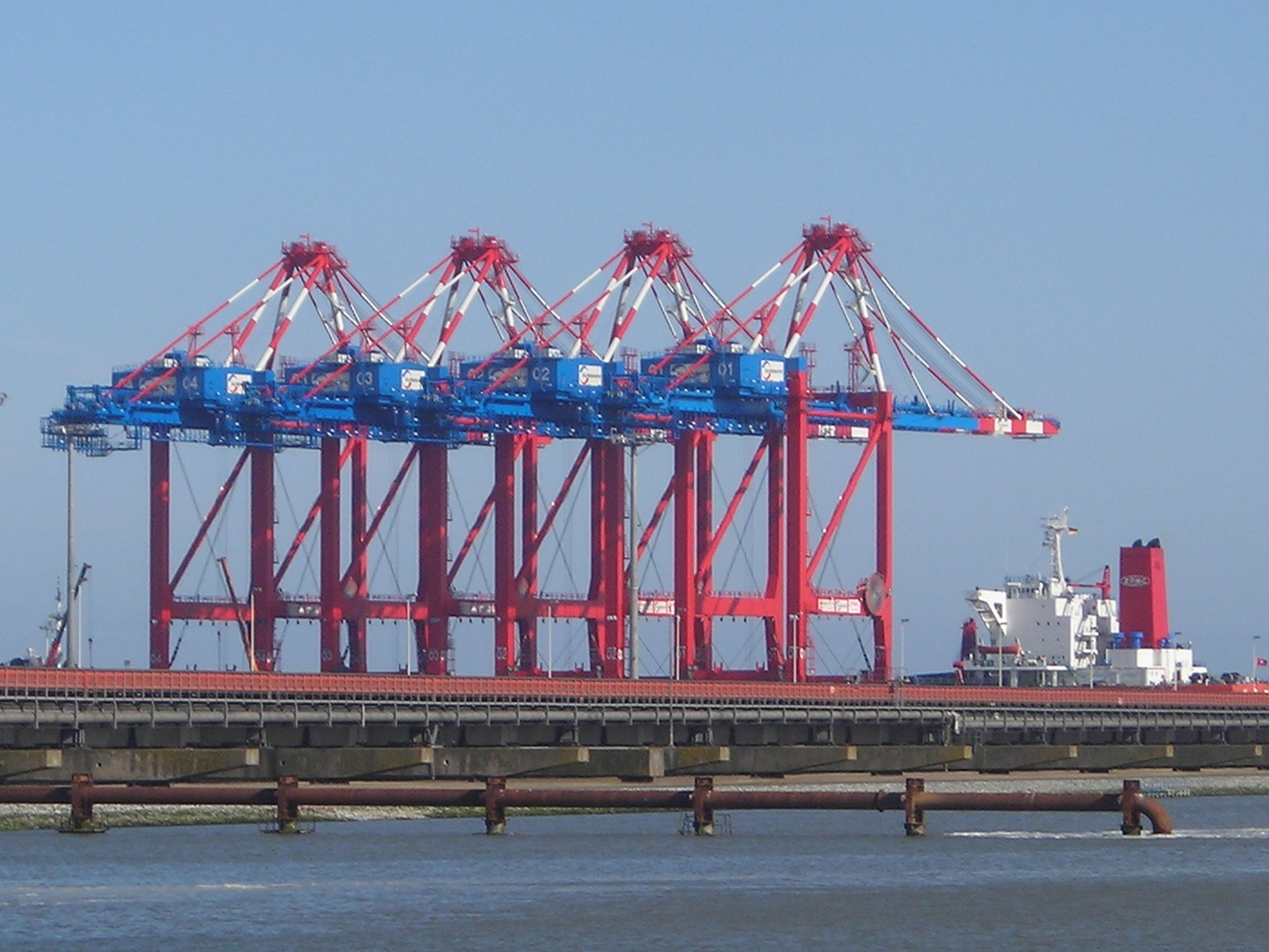 The first four container cranes are ready for offloading from the Chinese special transport vessel Zhen Hua 23